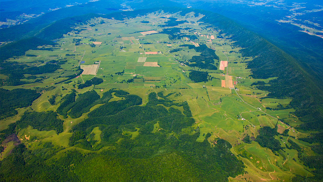 Aerial Photo of Burkes Garden, VA taken June 8, 2016 by Greg Cromer as part of his America from the Sky series.